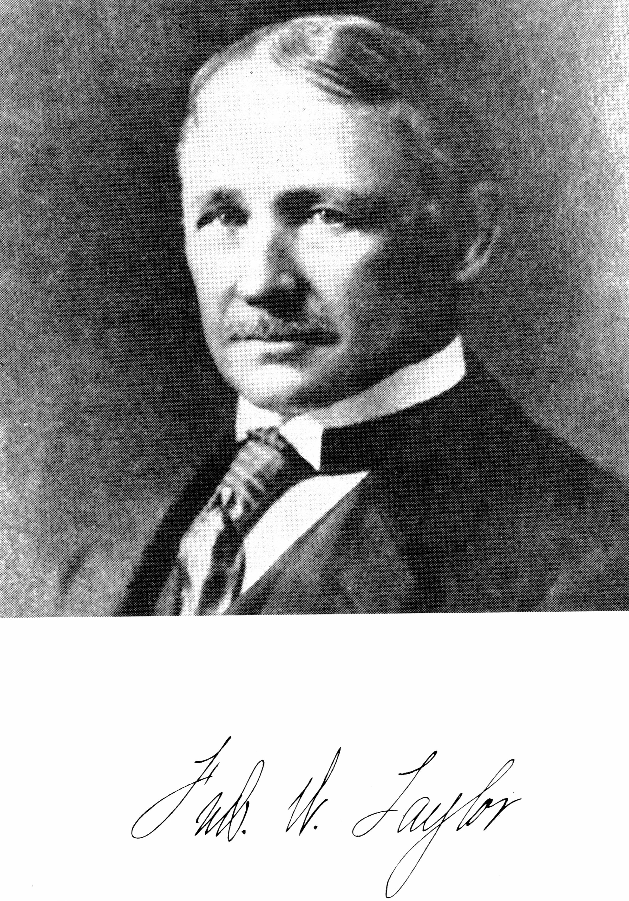 Frederick Winslow Taylor lived from 1856 to 1915